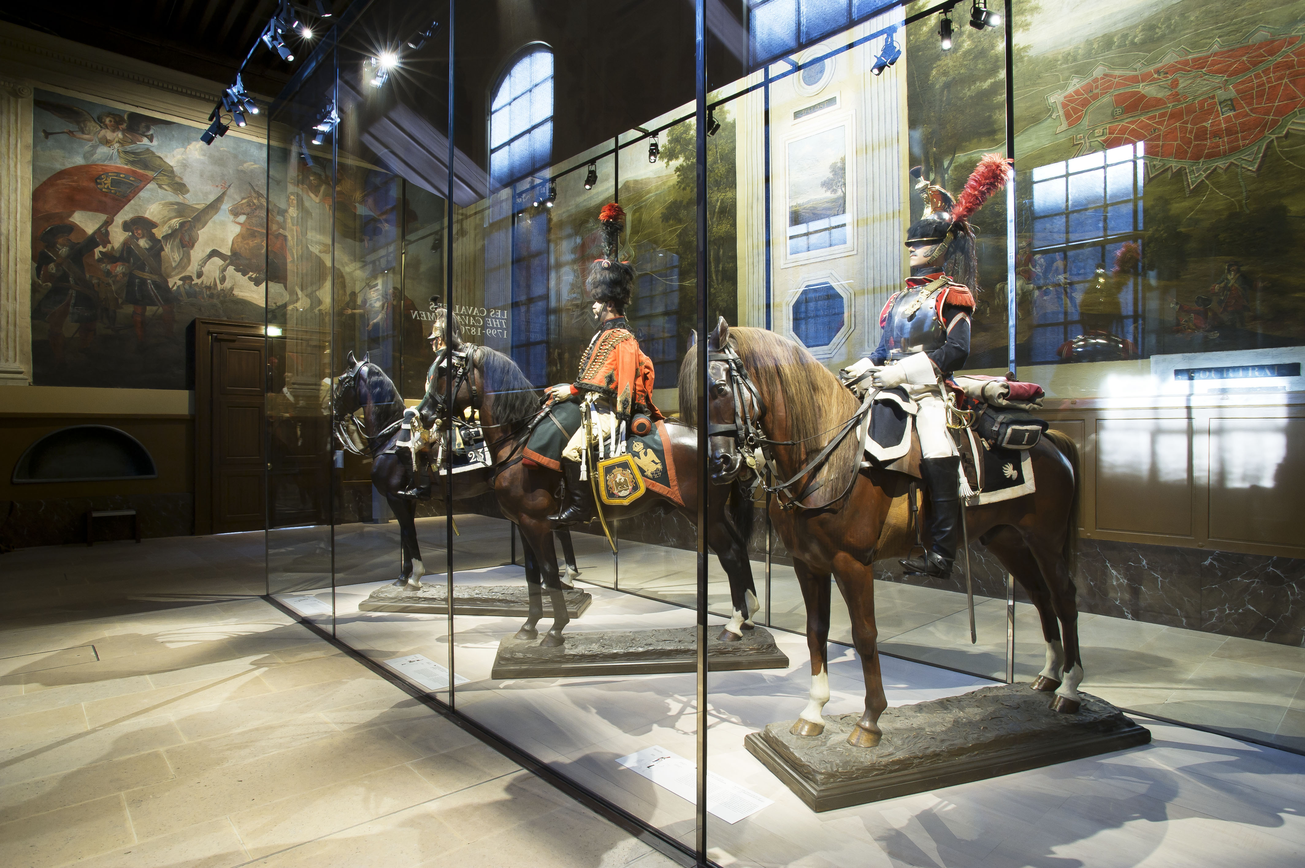 Salle d'exposition du musée de l'Armée de Paris